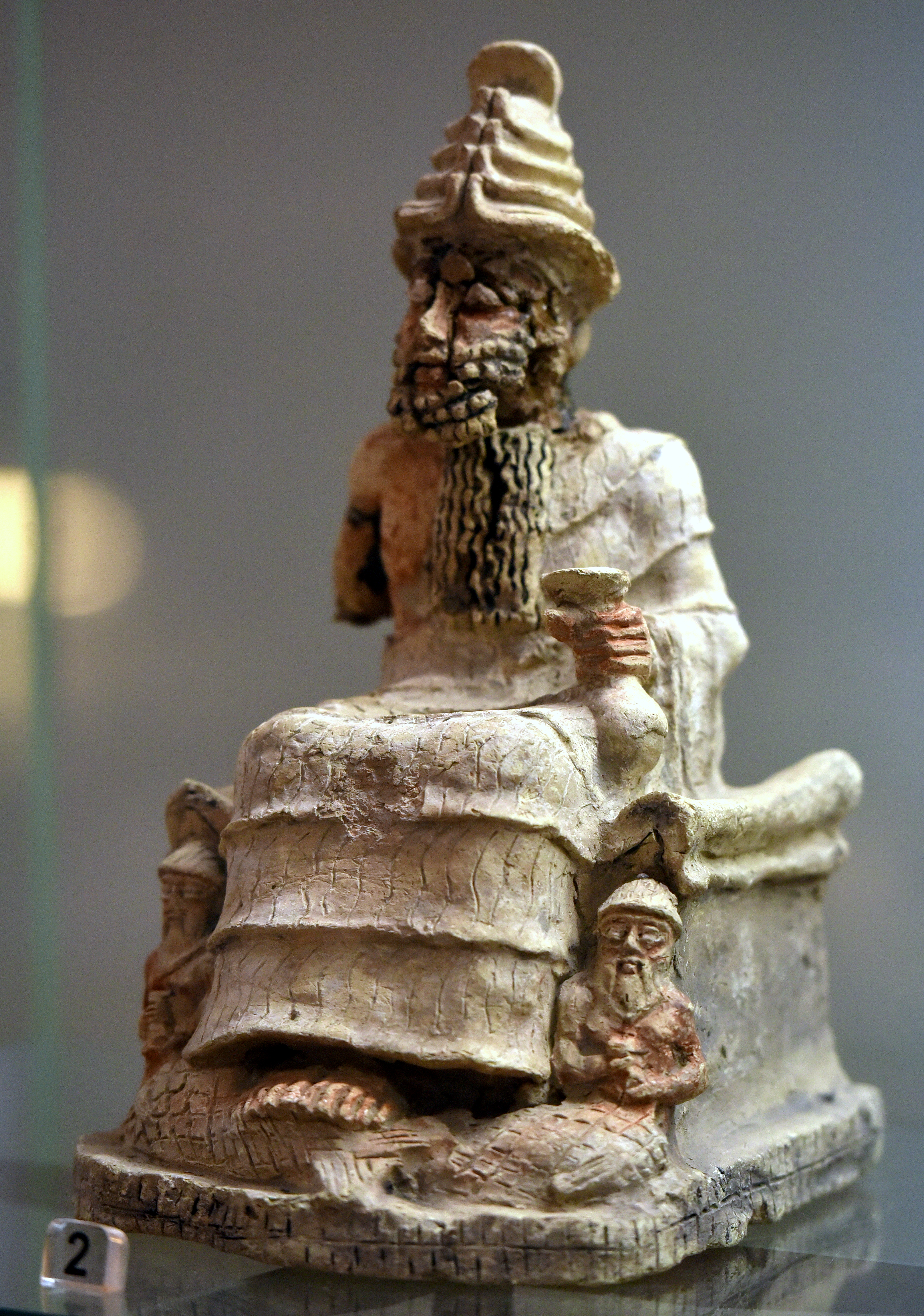 A statue of Ea, the Akkadian god (Sumerian god Enki) of water. Ea is enthroned and holds a cup in his left hand, the right hand has been lost to time. He is accompanied by two creatures (half human and half fish) reclining at the throne base. Confiscated in the 1990s; illegally excavated by plunderers. Probably from Nasiriyah, Southern Iraq. Old-Babylonian period, 2004-1595 BCE. On display at the Iraq Museum in Baghdad.